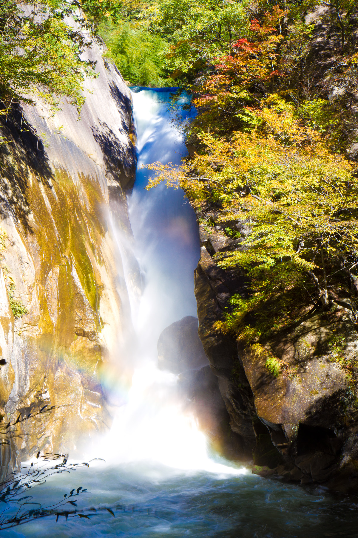 Waterfall at Shosenkyo